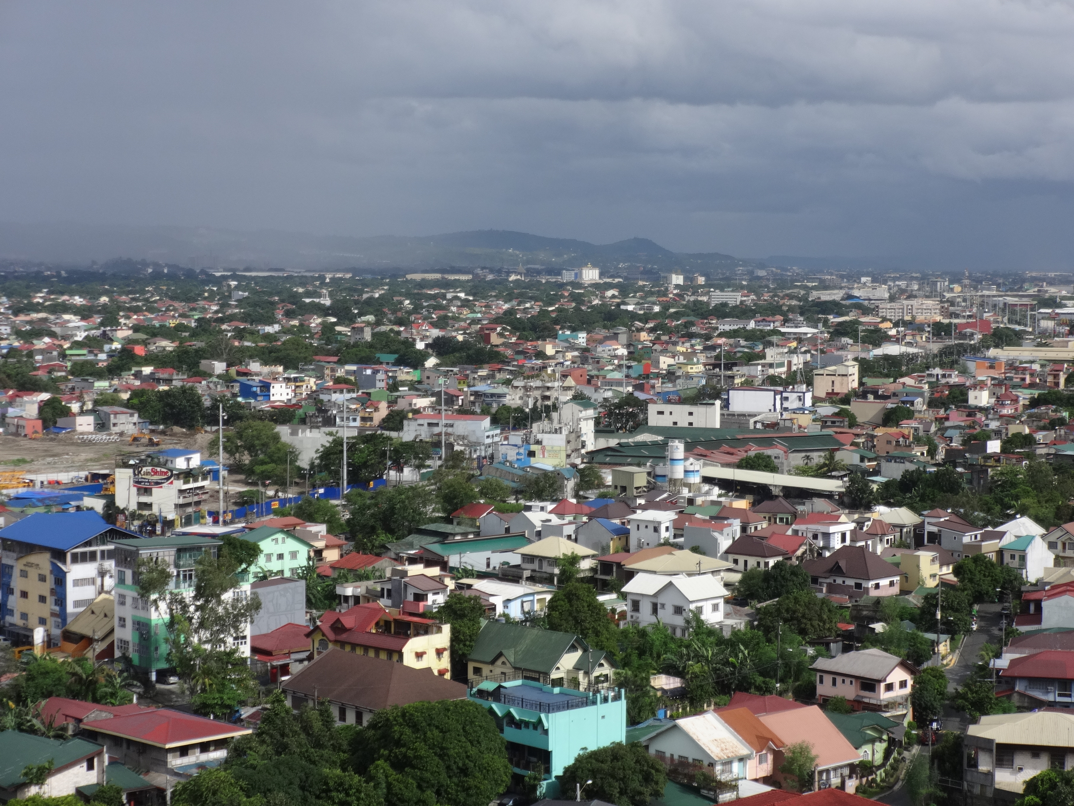 Aerial view of municipality of Cainta in Rizal